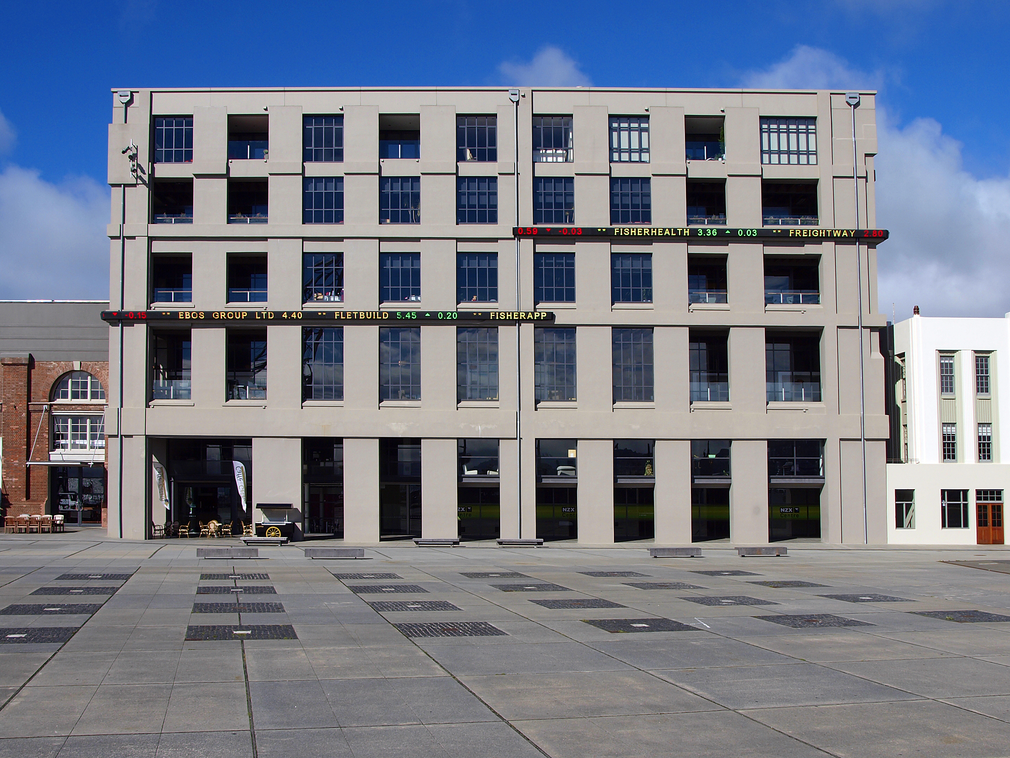 New Zealand Exchange (NZX), Wellington, New Zealand